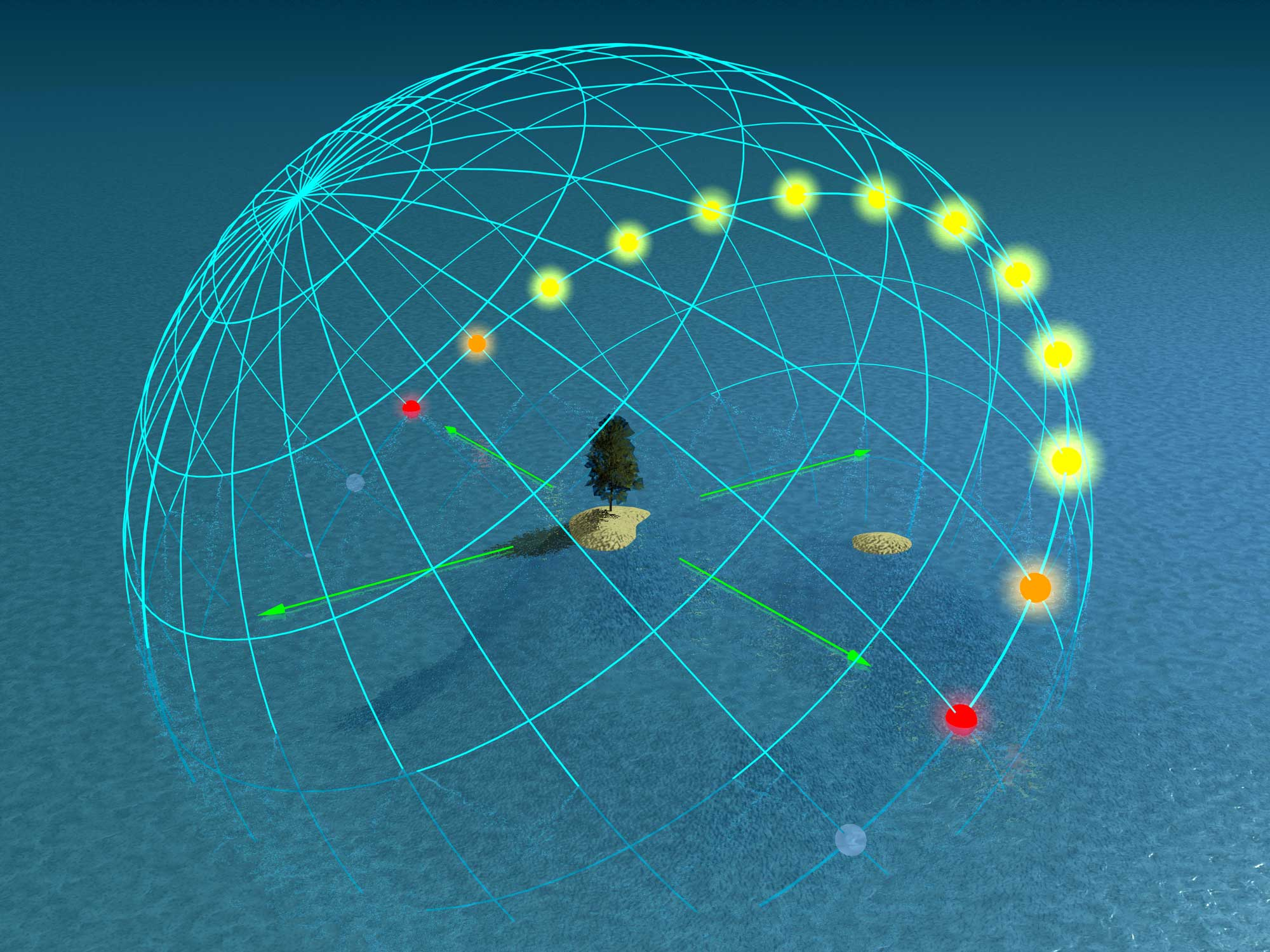 The day arc of the Sun, every hour, during the equinoxes as seen on the celestial dome, from 50° latitude. Also showing 'twilight suns' down to -18° altitude.